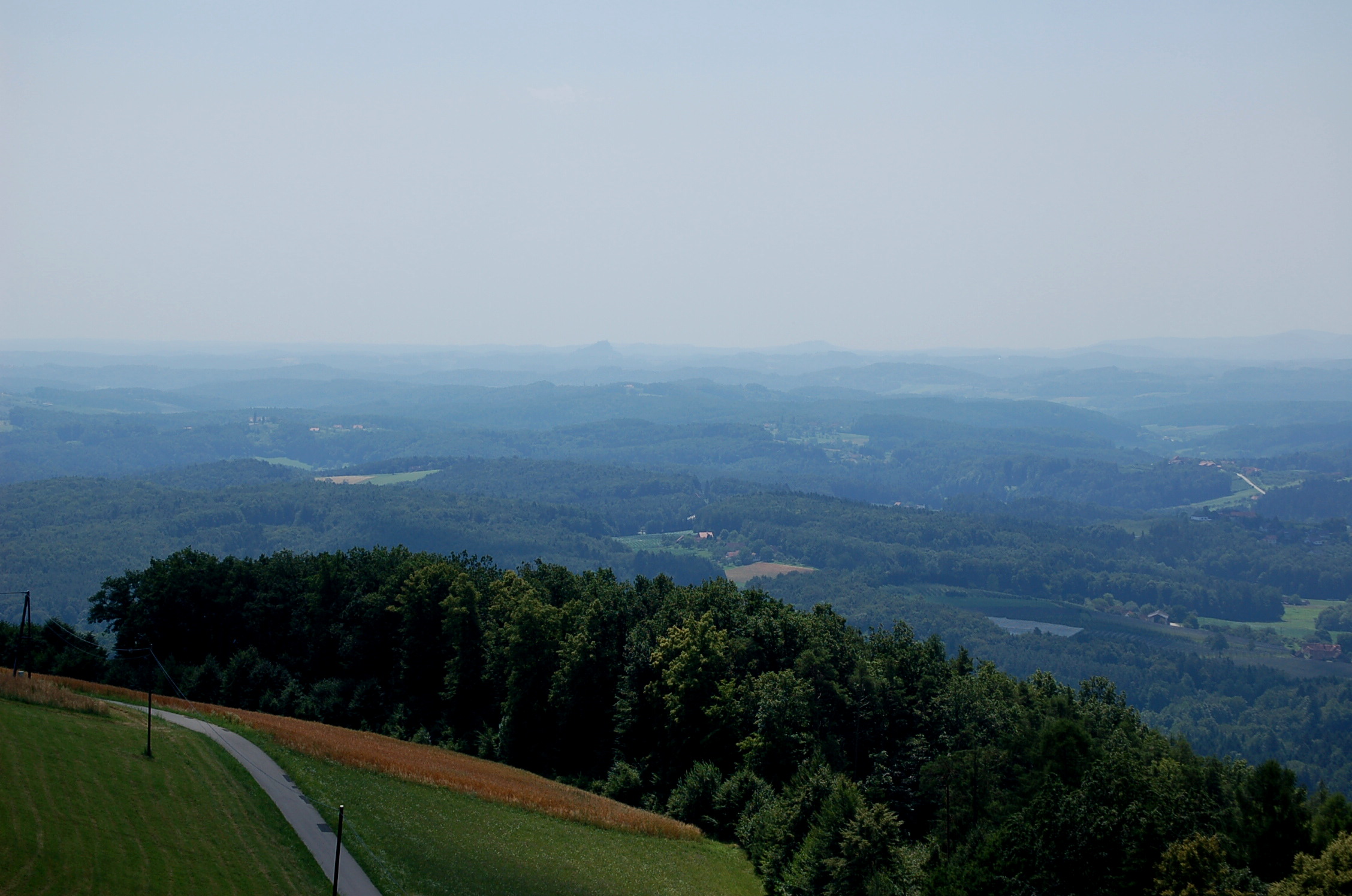 Hills of Eastern Styria; view from Geierwand near Herberstein towards S and SSW. Somewhat left of the centre of the picture at the horizon the cliff of Riegersburg castle can be seen.